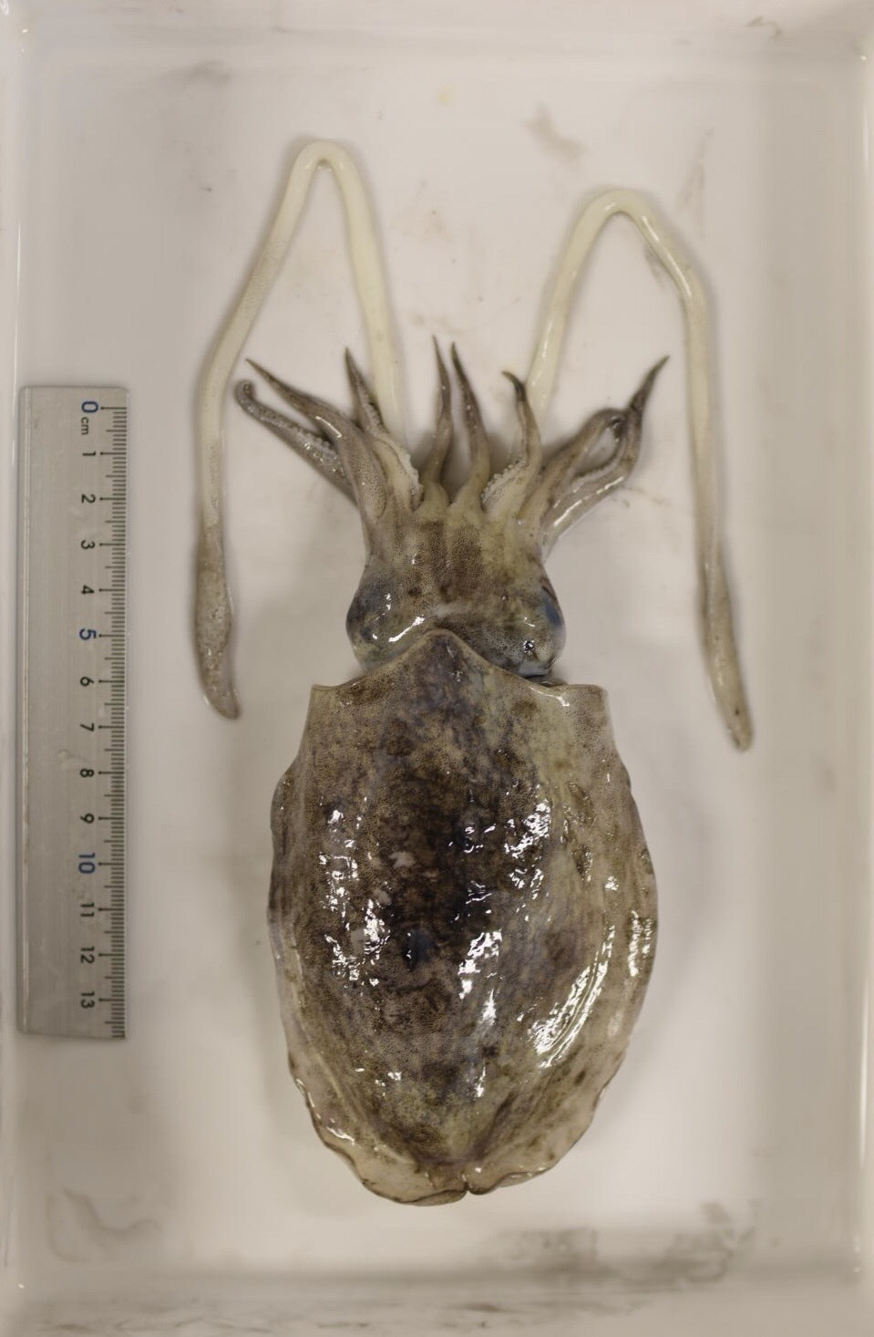 Dorsal view of Sepiella japonica. Landed at Yawatahama.